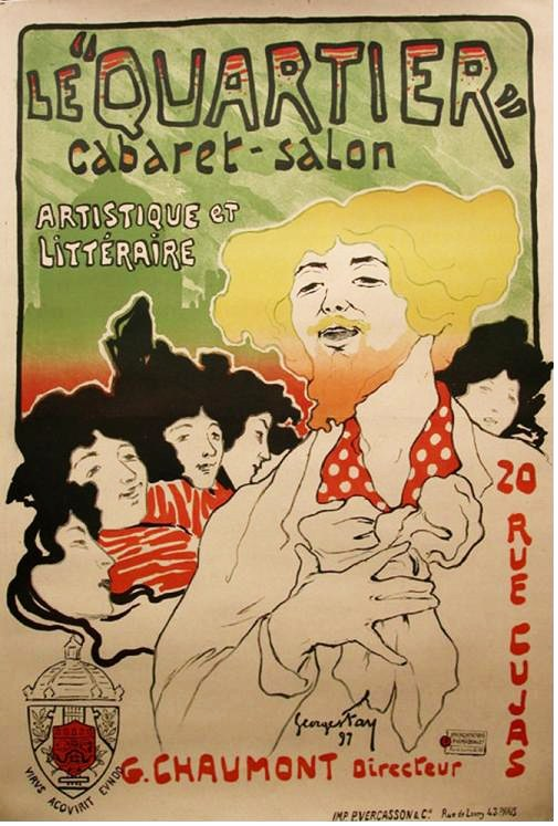 Le Quartier Cabaret salon artistique et littéraire, poster signed Georges Fay - Paris 1897 P. Vercasson (printer in Paris).